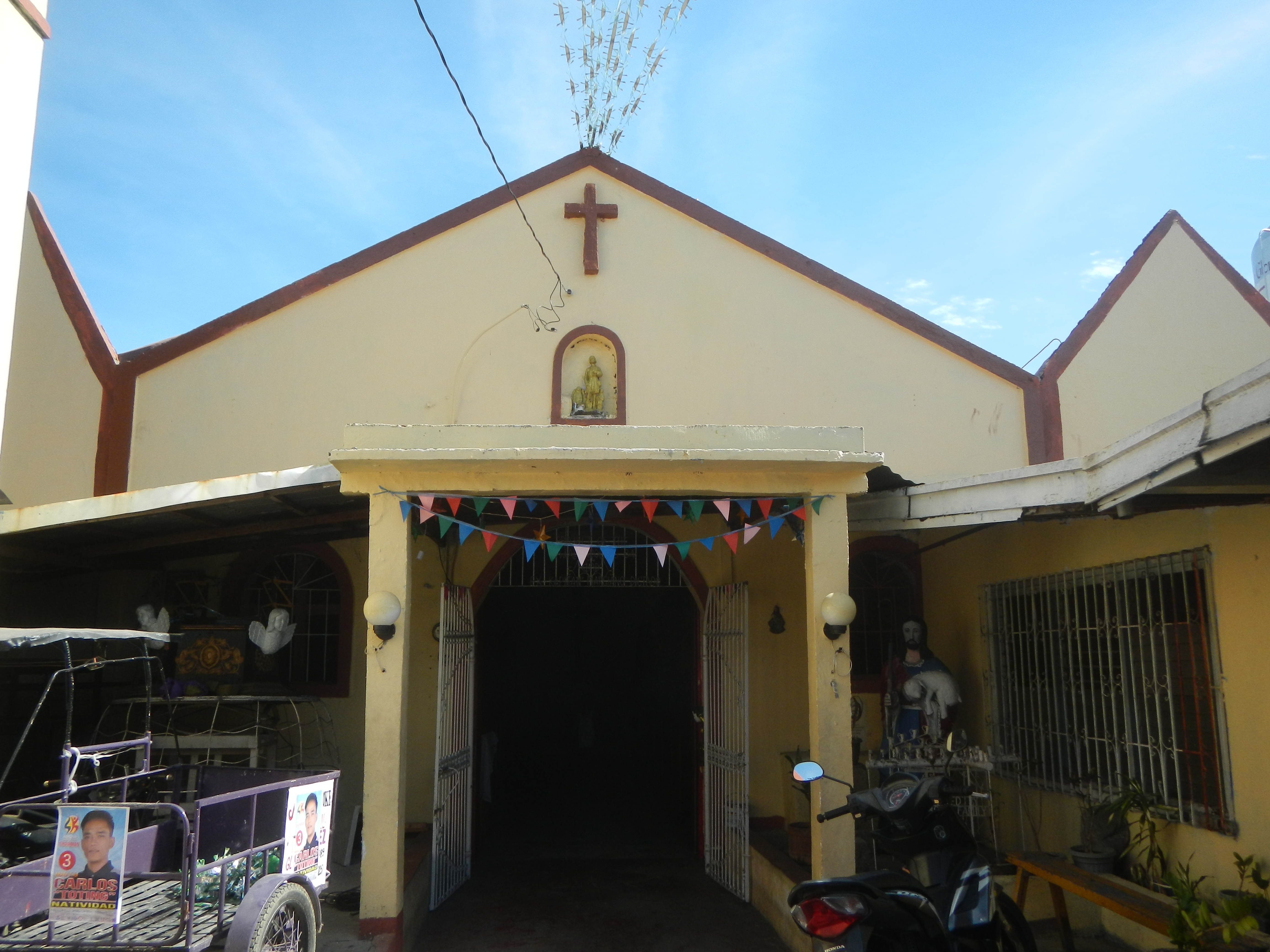 National Road (Santa Rosa, Laguna) Dita, Santa Rosa, Laguna Cathedral of San Isidro Labrador (Anglican Catholic Church, Dita, Santa Rosa, Laguna) 1st_District List of barangays in Laguna (province) Barangay Dila 14°17'19"N 121°6'41"E Dita 14°16'45"N 121°6'35"E Santa Rosa, Laguna bounded by List of Barangays in Cabuyao Barangay Poblacion I, Cabuyao, Cabuyao (Note: Judge Florentino Floro, the owner, to repeat, Donor Florentino Floro of all these photos hereby donate gratuitously, freely and unconditionally Judge Floro all these photos to and for Wikimedia Commons, exclusively, for public use of the public domain, and again without any condition whatsoever).